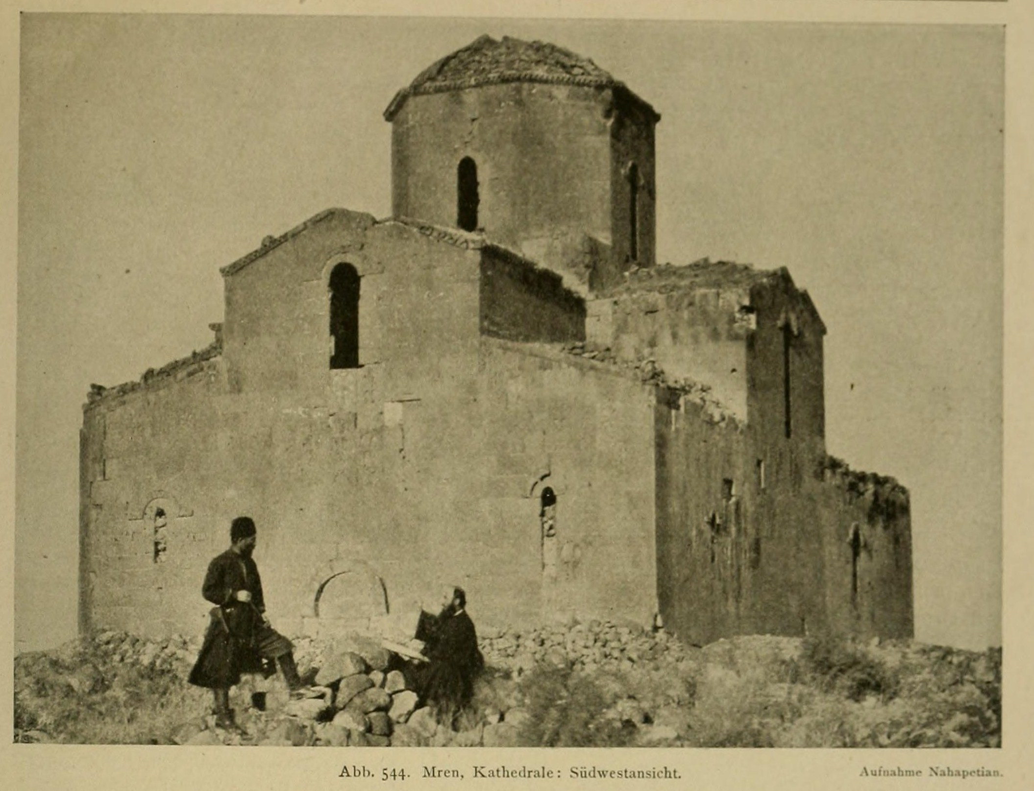 Cathedral of Mren